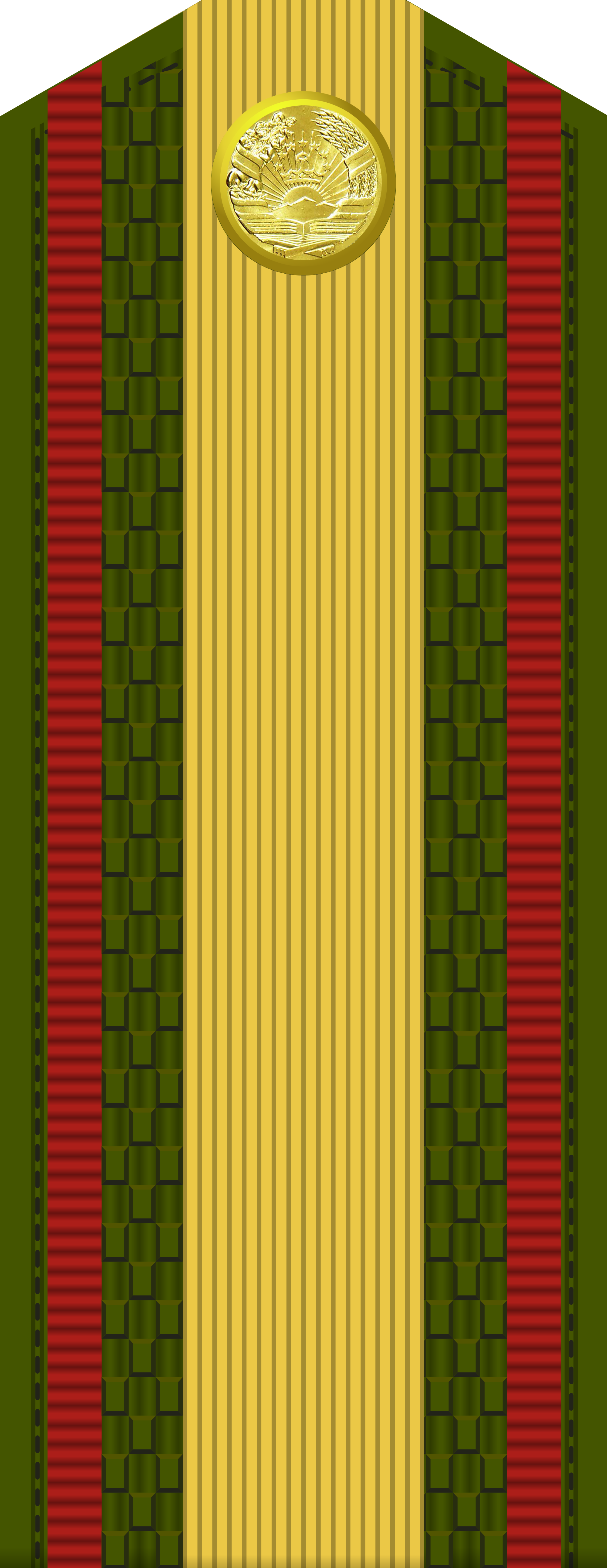 Тоҷикӣ: Rank insignia of Master Sergeant for the Tajikistan Army